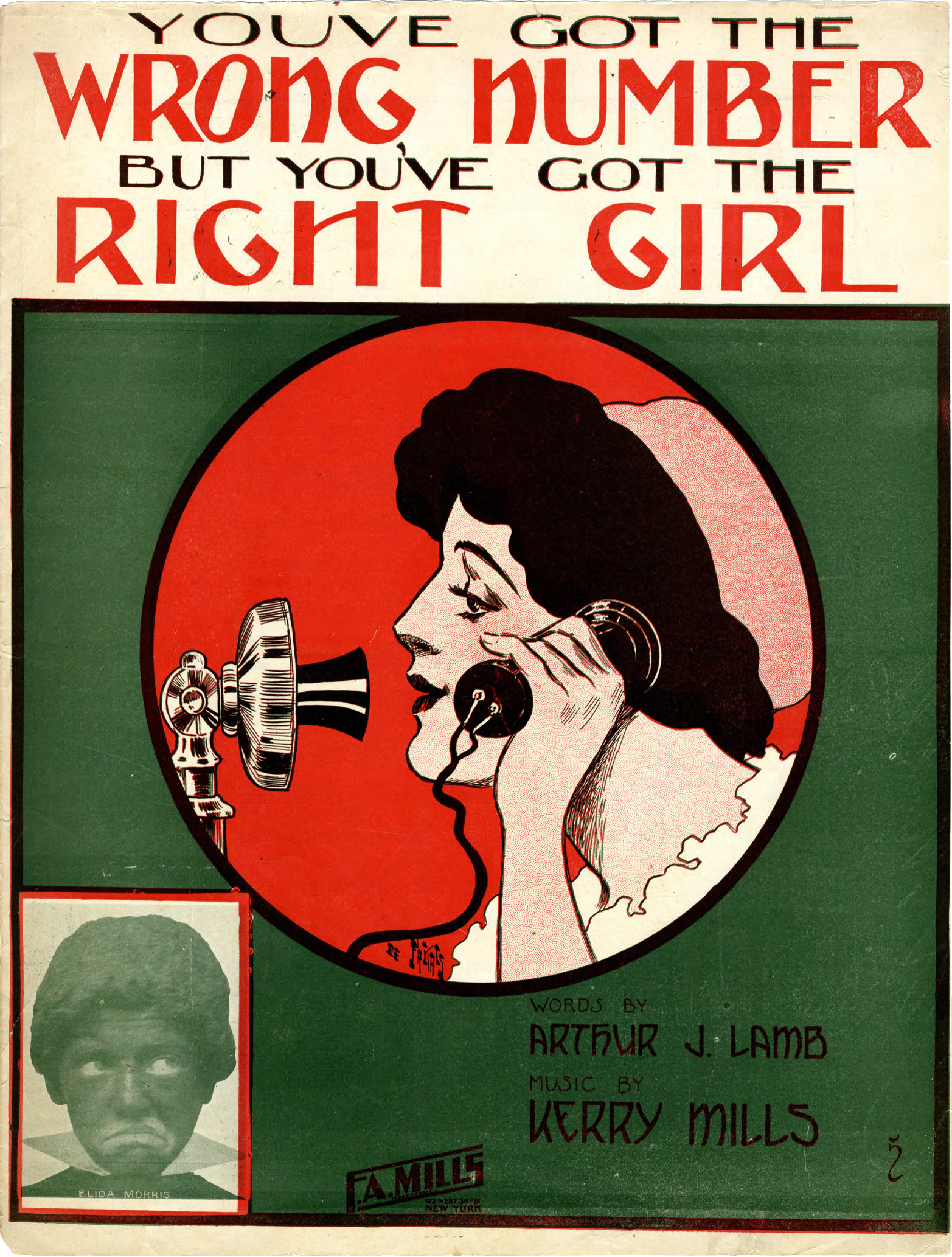 Sheet music cover